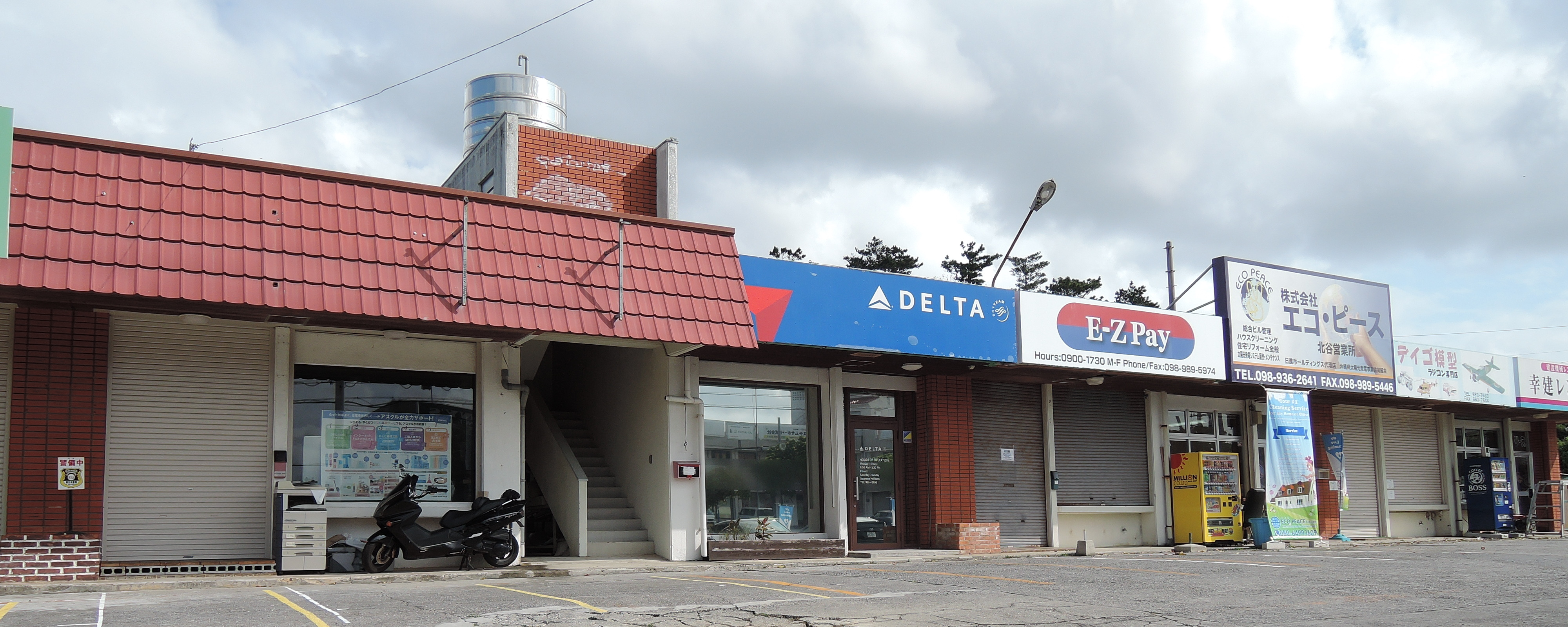 Okinawa branch ticketing office of Delta Air Lines, Towa Building #1 (東和第一ビル Tōwa Daiichi Biru), 411-1 Aza Ihei, Chatan, Okinawa prefecture, Japan